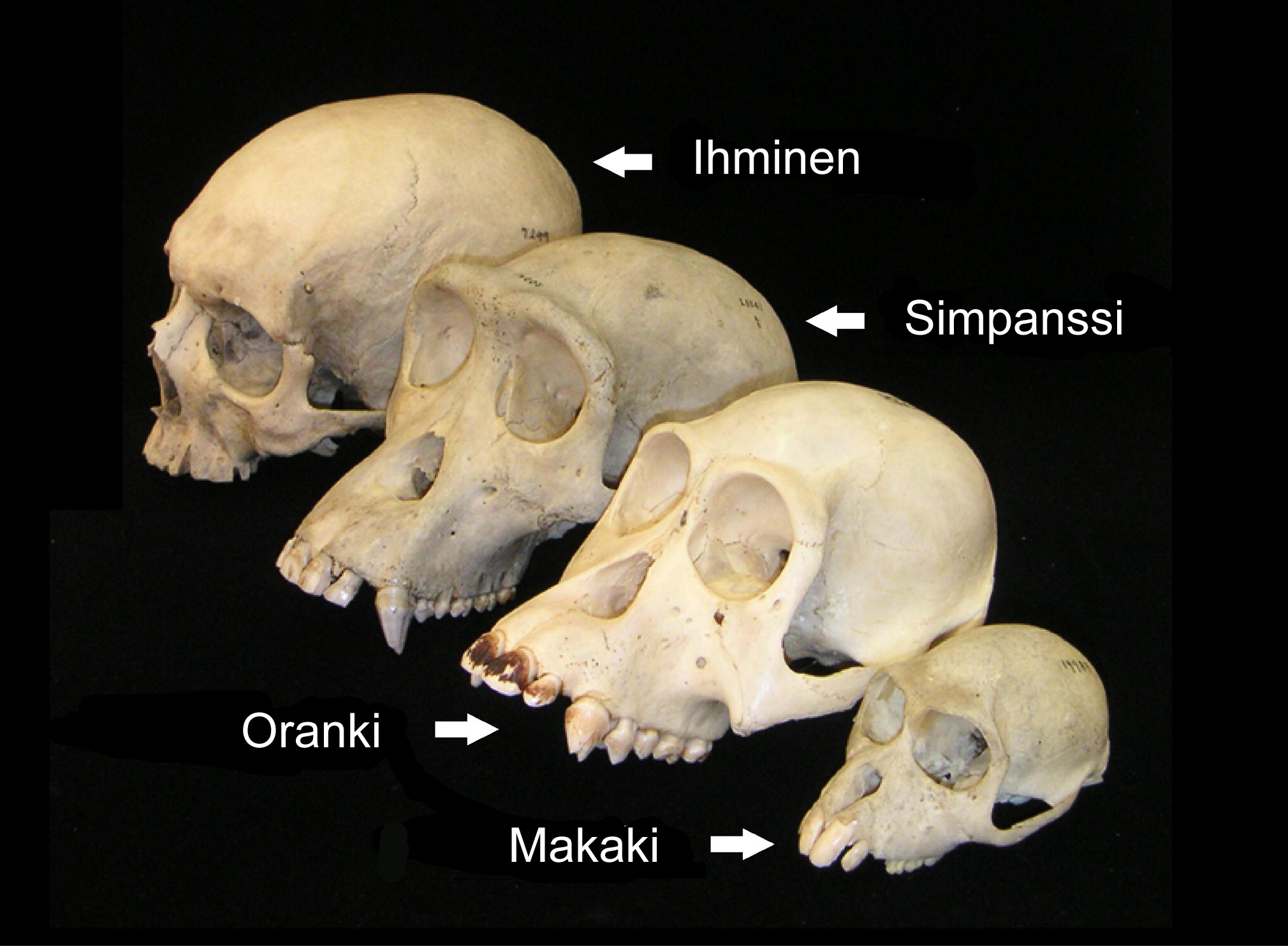 Primate skulls provided courtesy of the Museum of Comparative Zoology, Harvard University.